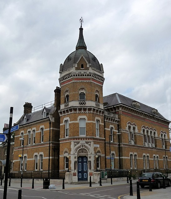 Former Poplar Board of Works, Poplar High Street A splendid piece of Victorian polychromy. In an Italian Gothic style by Hills and Fletcher with A. and C. Harston in 1869-70. The tower in particular is a lovely touch with its spired dome, rich carvings and decorative frieze. Grade II listed. At the time of the photo, the building appeared to be disused, although, externally at least, it seemed to be in reasonable condition. By 2018 it had become a hotel.